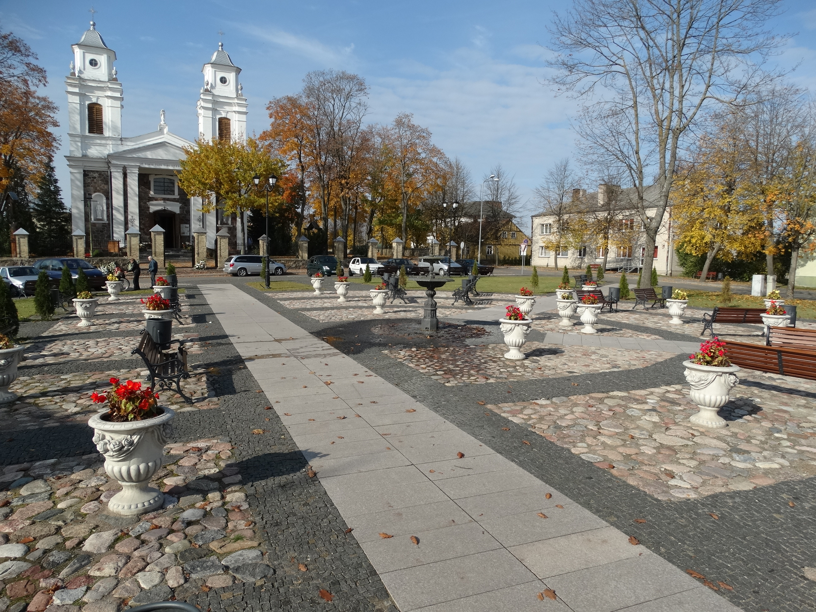 Square, Lazdijai, Lithuania